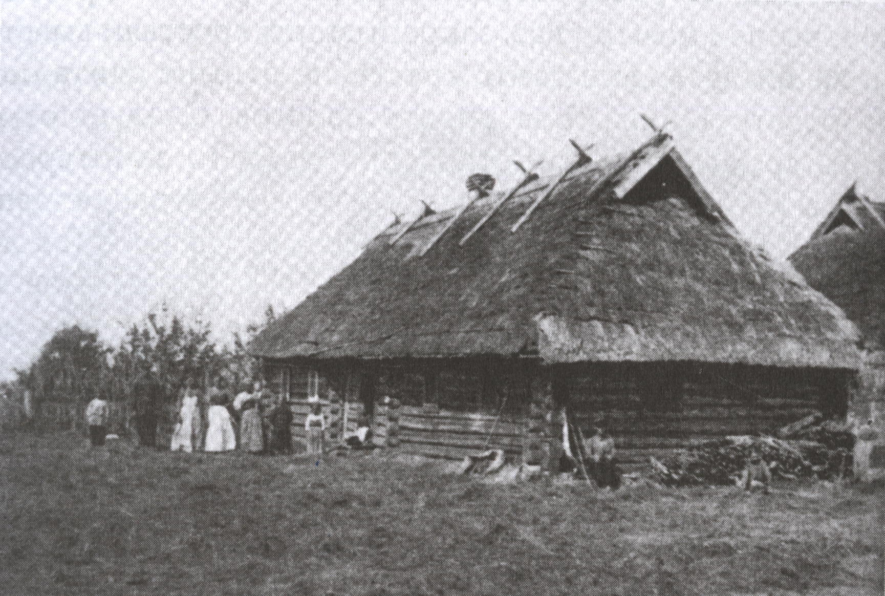 Rough translation: Cottage with a chimney, the smoke vents through holes, (courneuve cottage?) in the village of Sands (now part of the village of Lusatia).